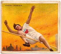 Harry Porter 1910 Mecca Cigarettes Champion Athlete and Prize Fighter Series card